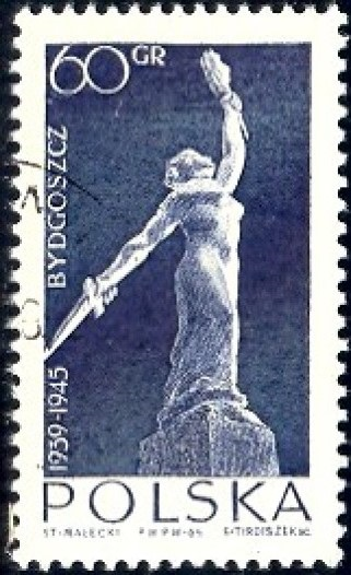 1964 stamp of Nike monument in Bydgoscz